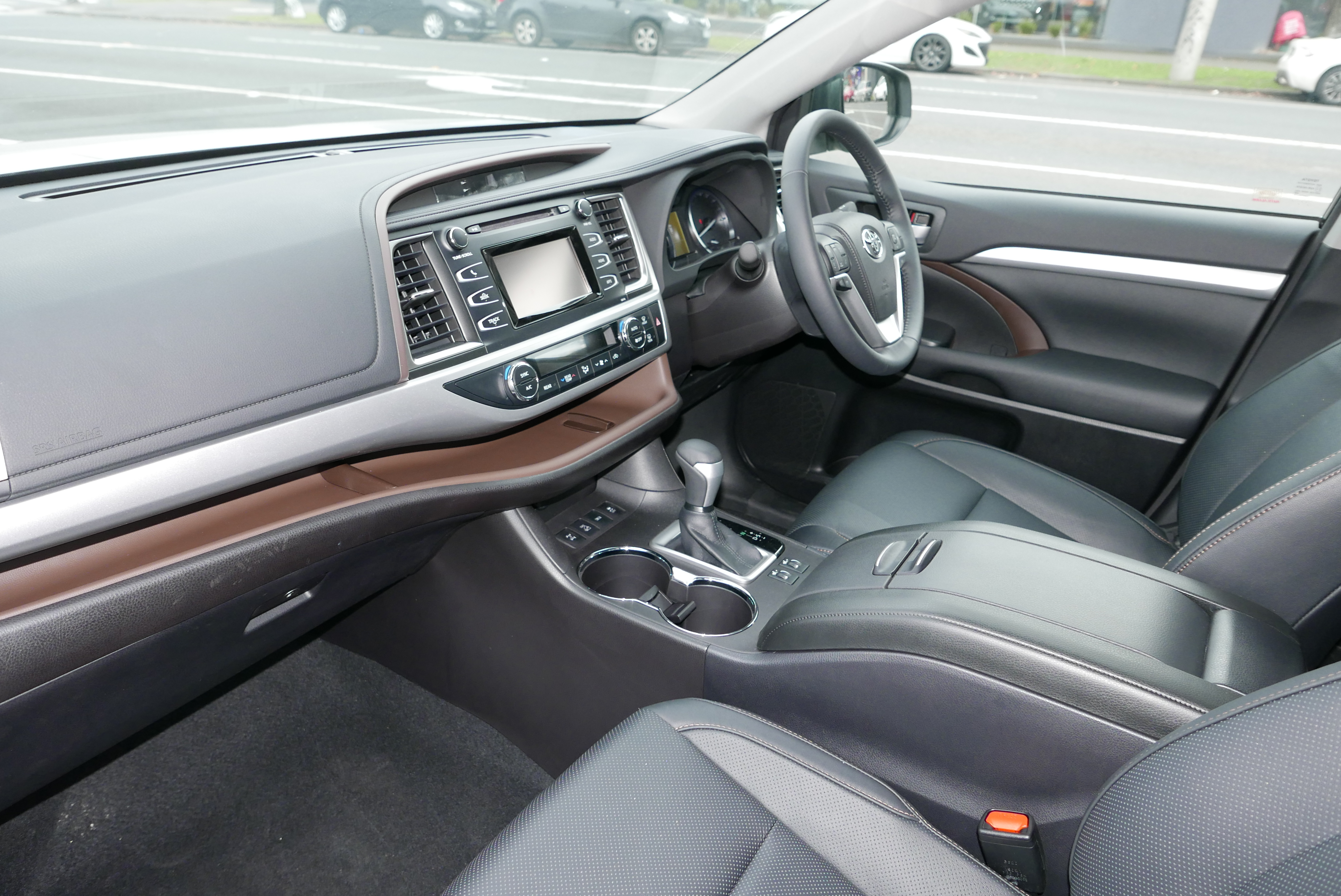 2015 Toyota Kluger (GSU55R) GXL wagon. Photographed at South Melbourne Toyota, Southbank, Victoria, Australia.